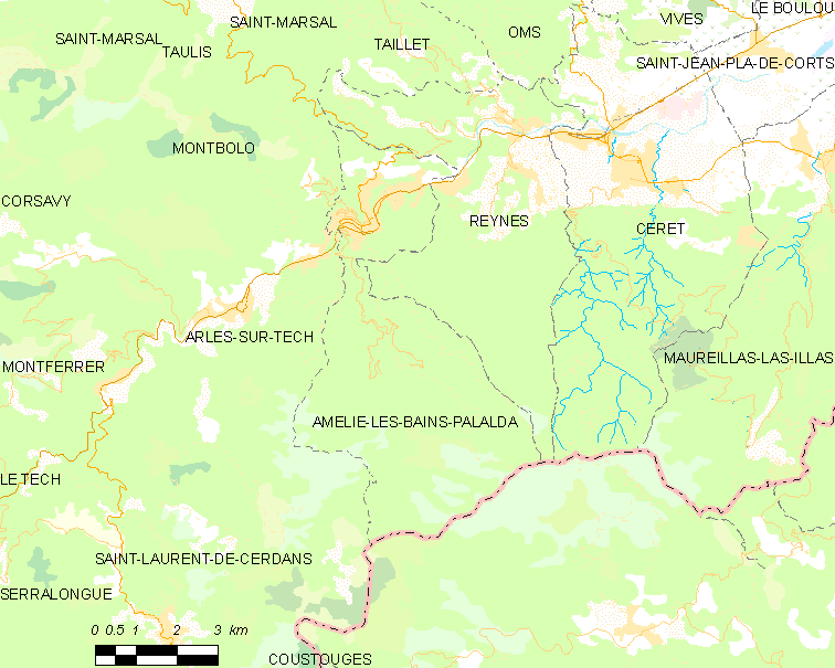 Map of French municipality